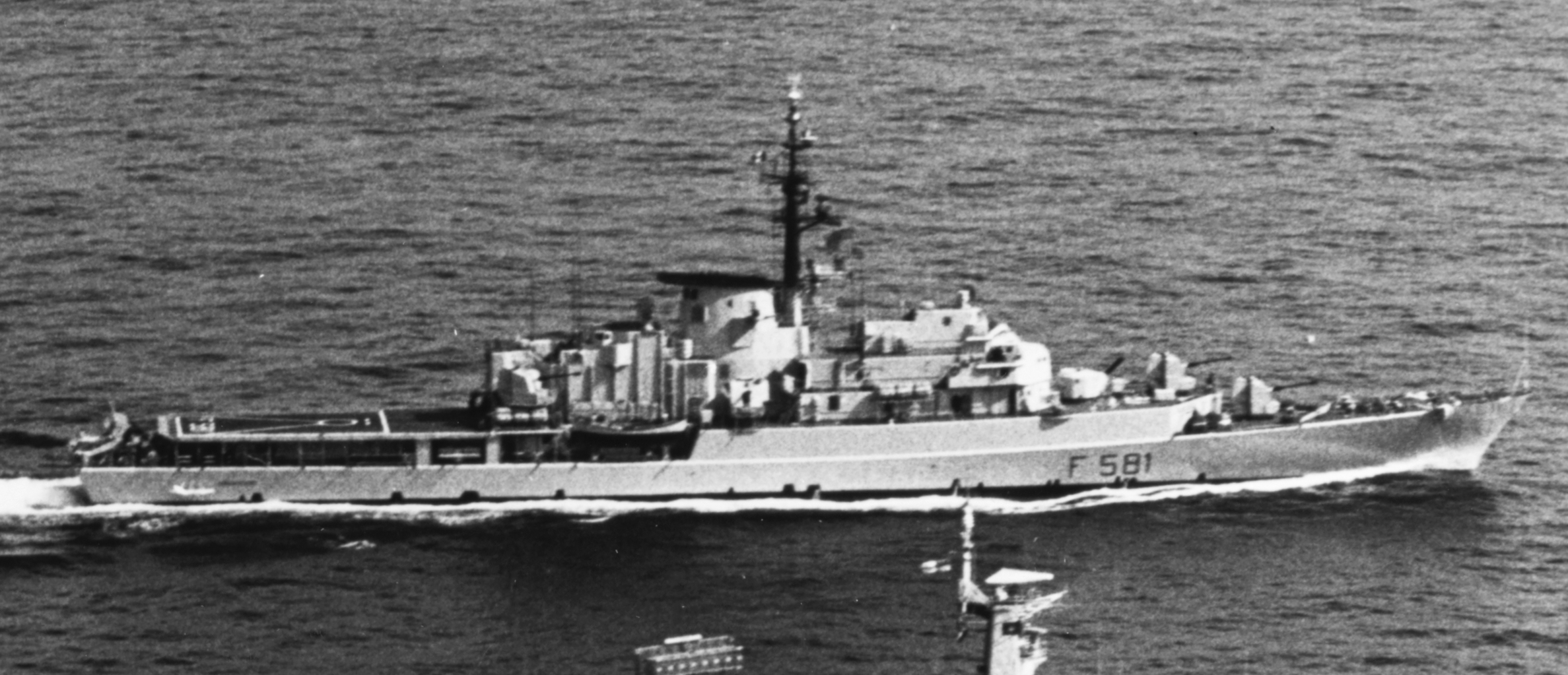 The Italian frigate Carabiniere (F581) operates in the Mediterranean Sea in 1979.